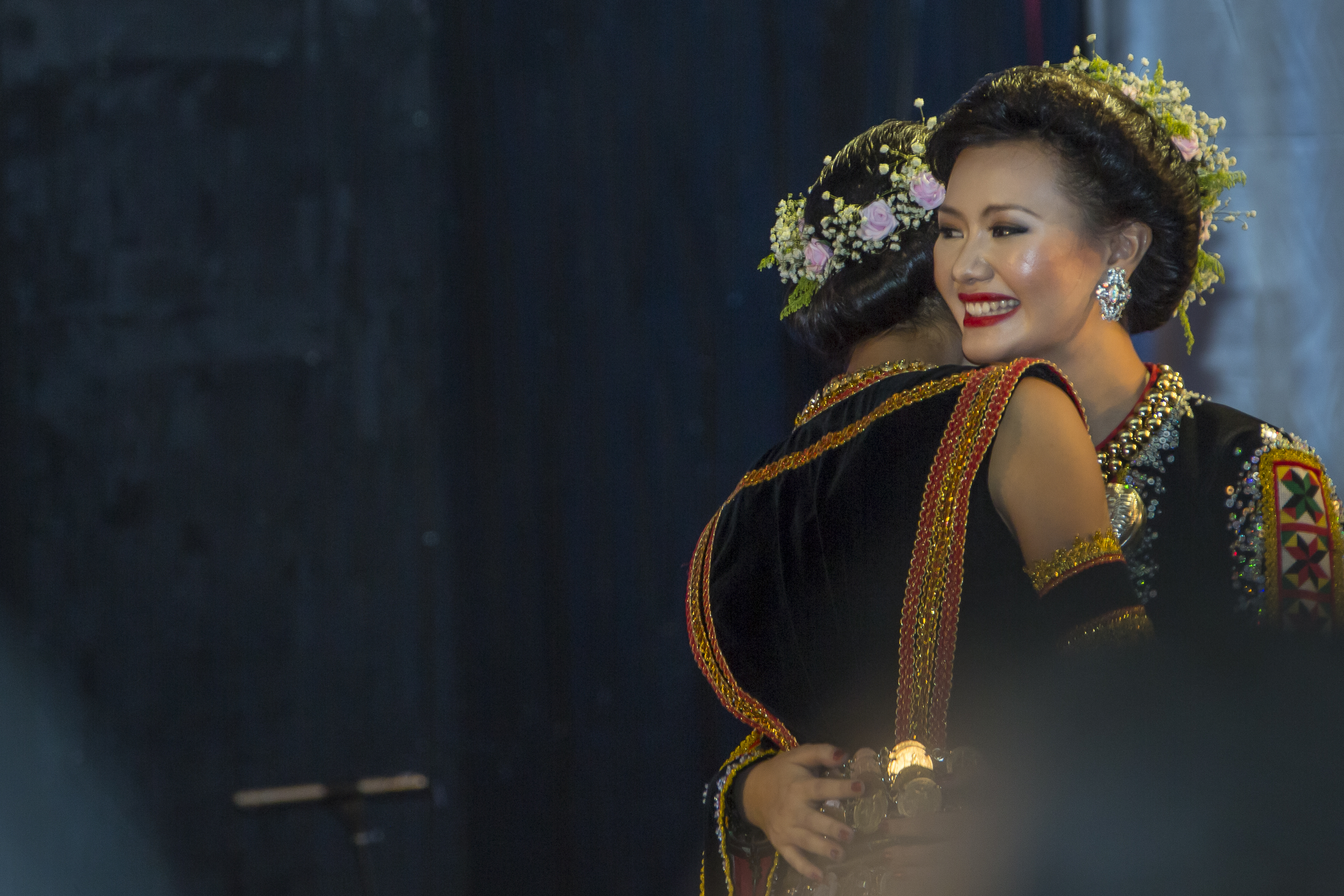 Penampang, Sabah: Unduk Ngadau 2014, Cheryl Lynn Pinsius, during the final of the pageant